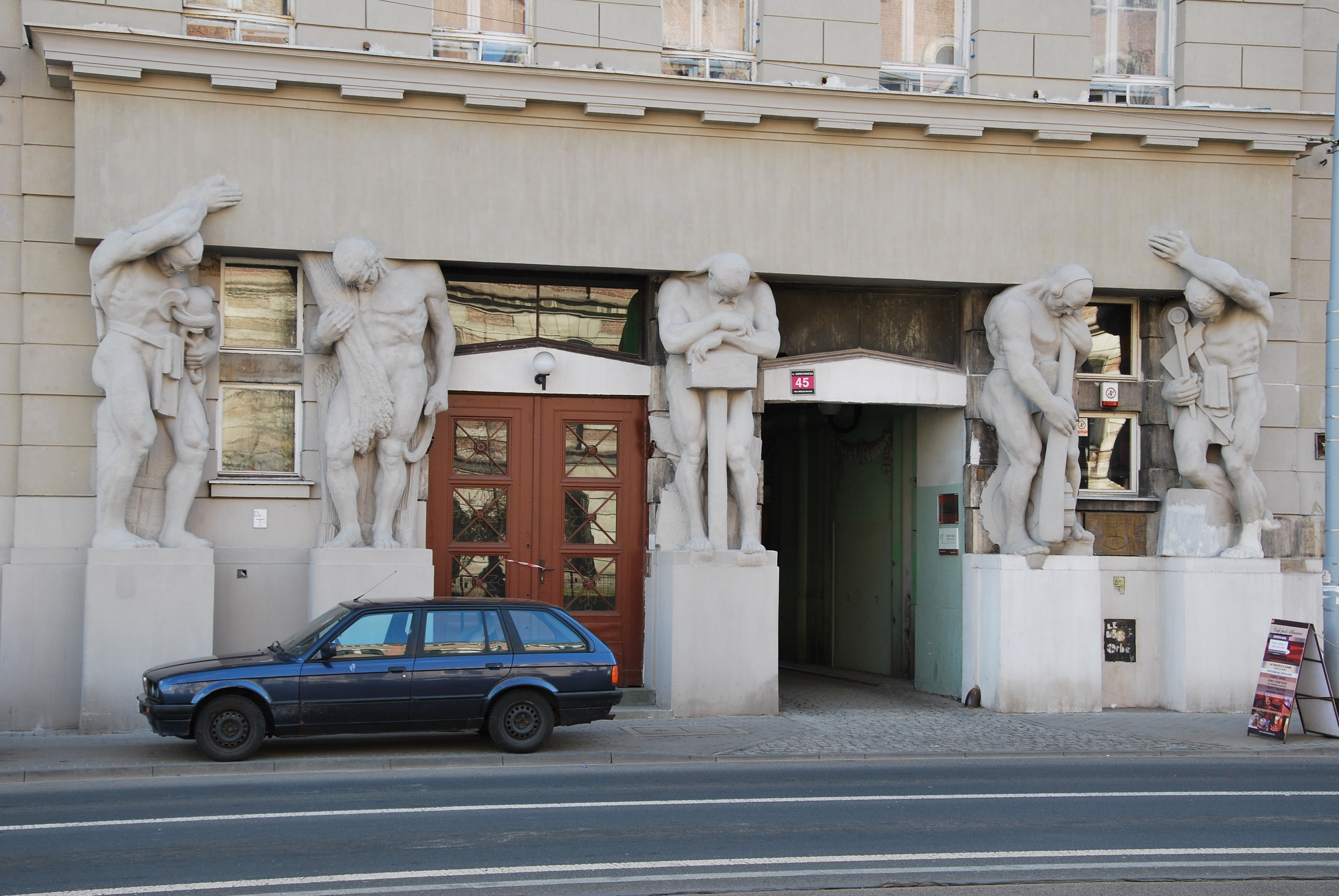 House with the Atlantes, Łódź Narutowicza Street 45